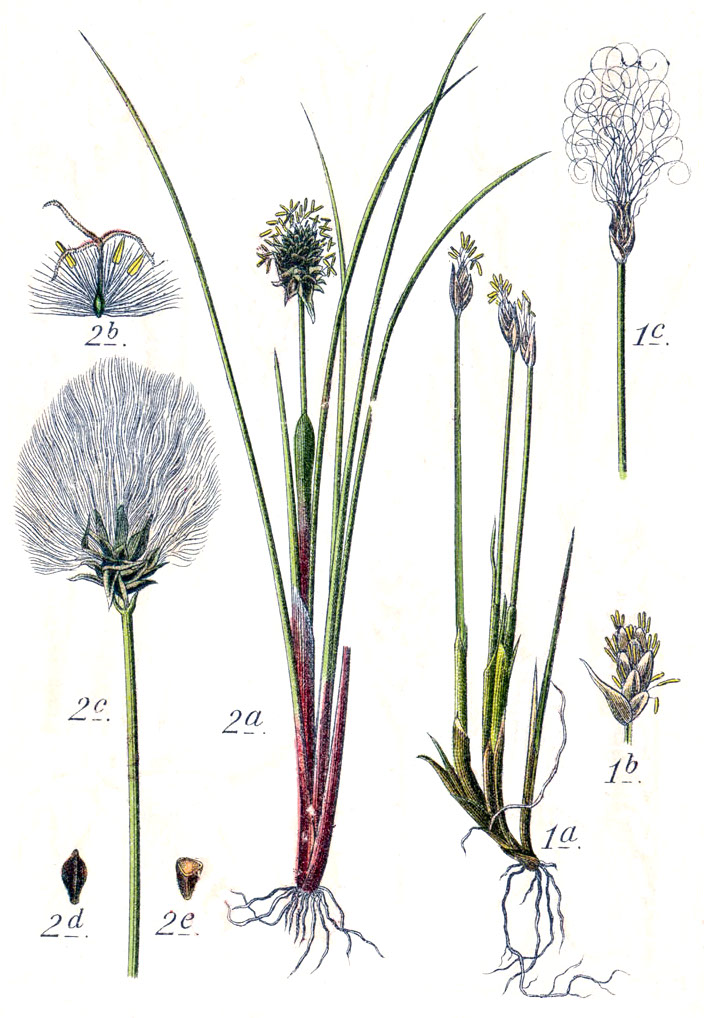 1. Trichophorum alpinum (L.) Pers., syn. Eriophorum alpinum L. 2. Eriophorum vaginatum L. Original Caption 1. Alpen-Wollgras, Eriophorum alpinum 2. Scheiden-Wollgras, E. vaginatum